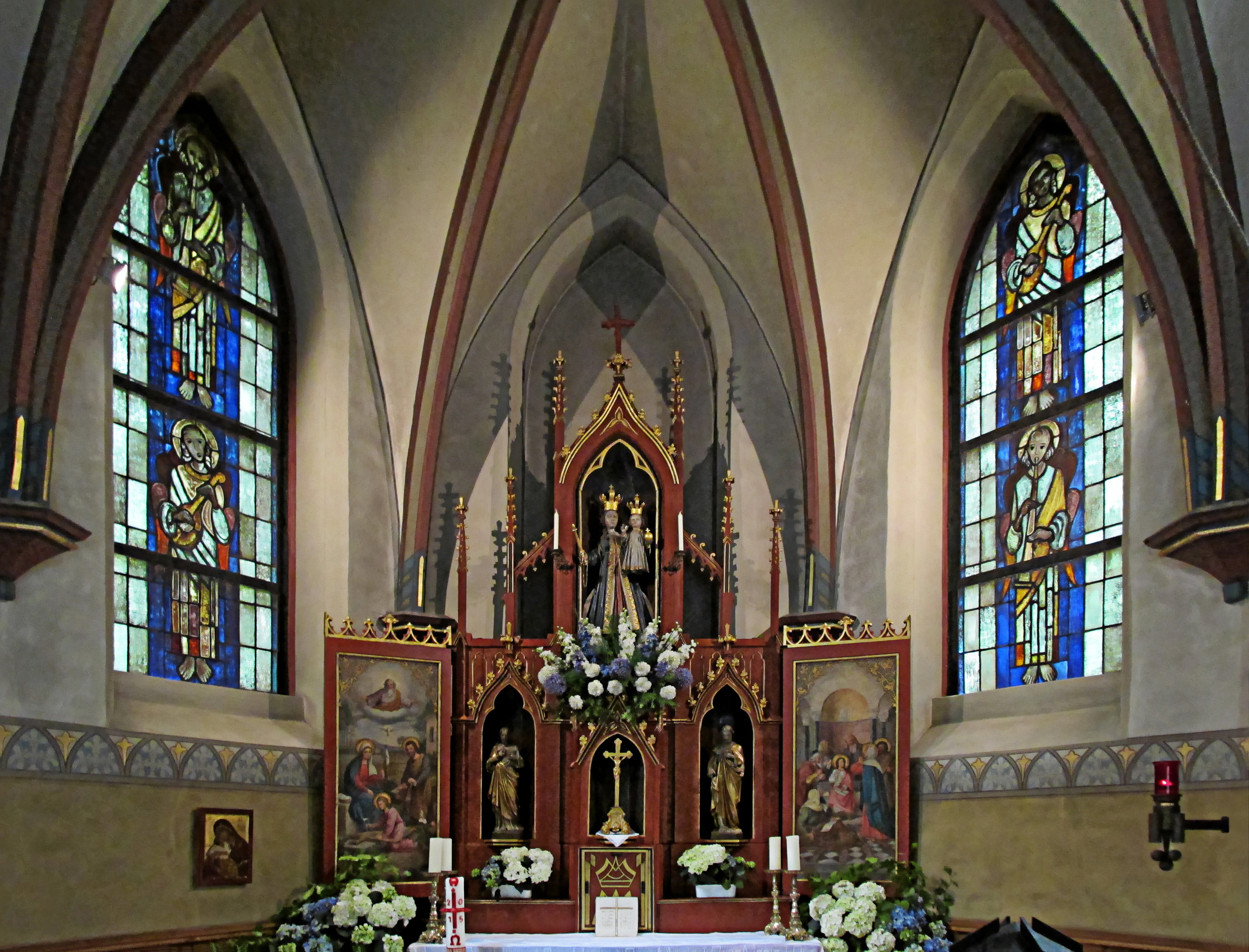 Sanctuary of Dörnschlade chapel, Wenden, Germany check usage